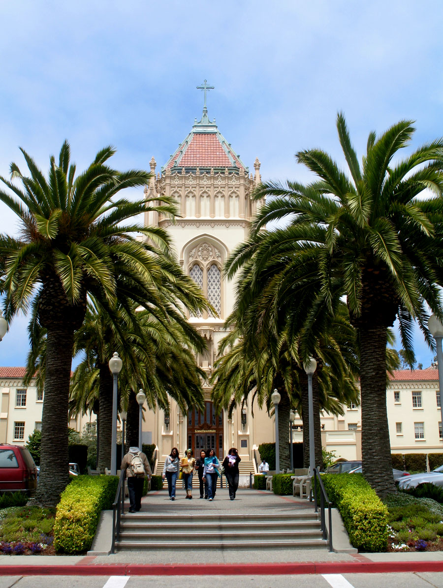 Lone Mountain campus, USF, San Francisco